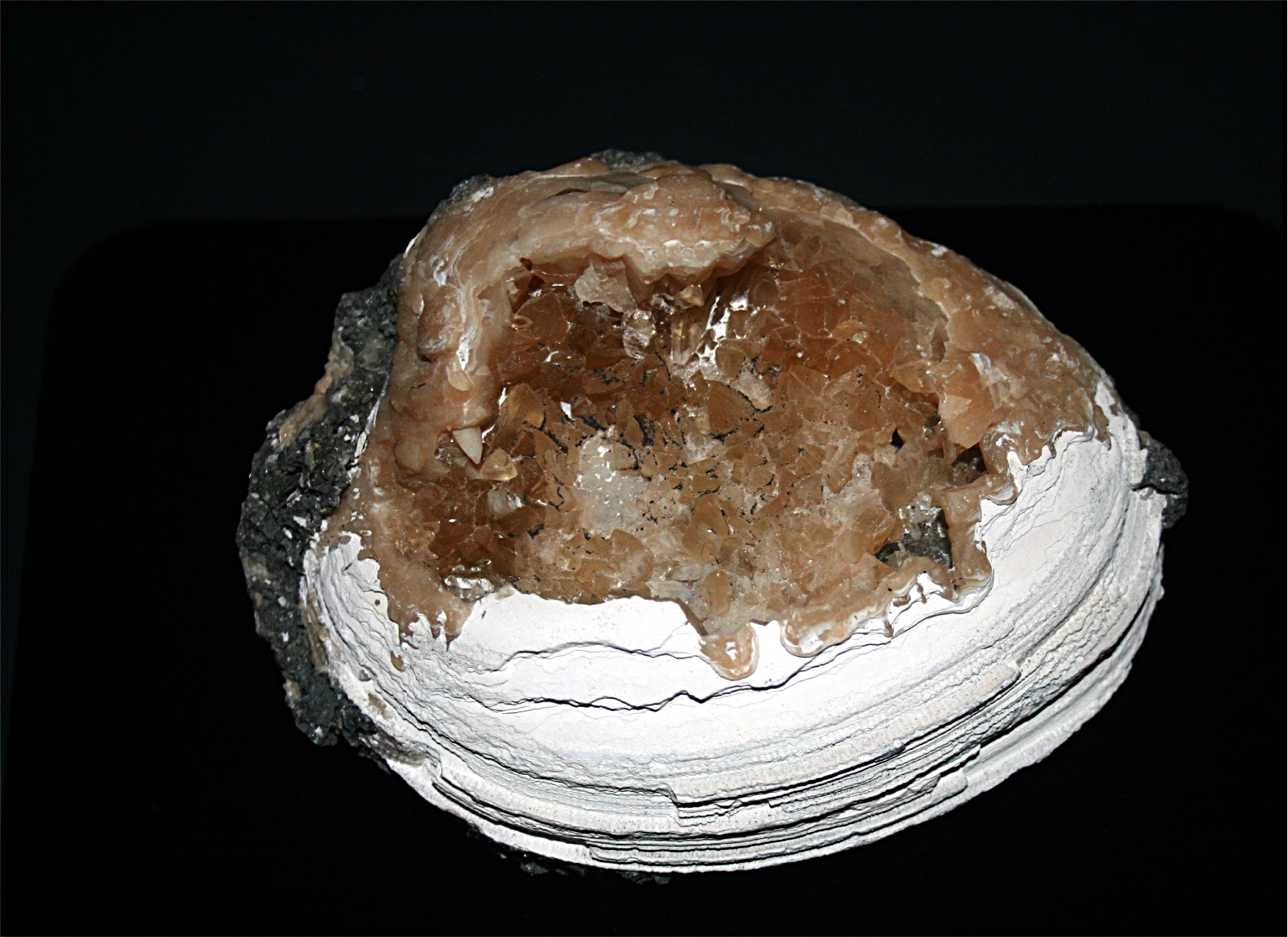 A Fossil shell with Calcite Crystals